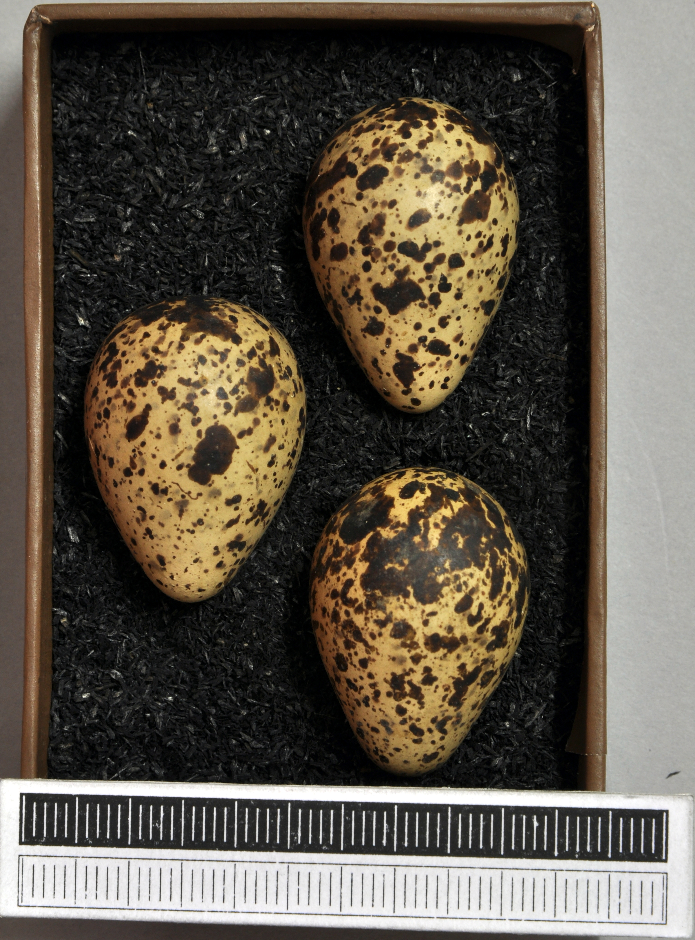 Red-necked phalarope Phalaropus lobatus , egg, Coll. Museum Wiesbaden